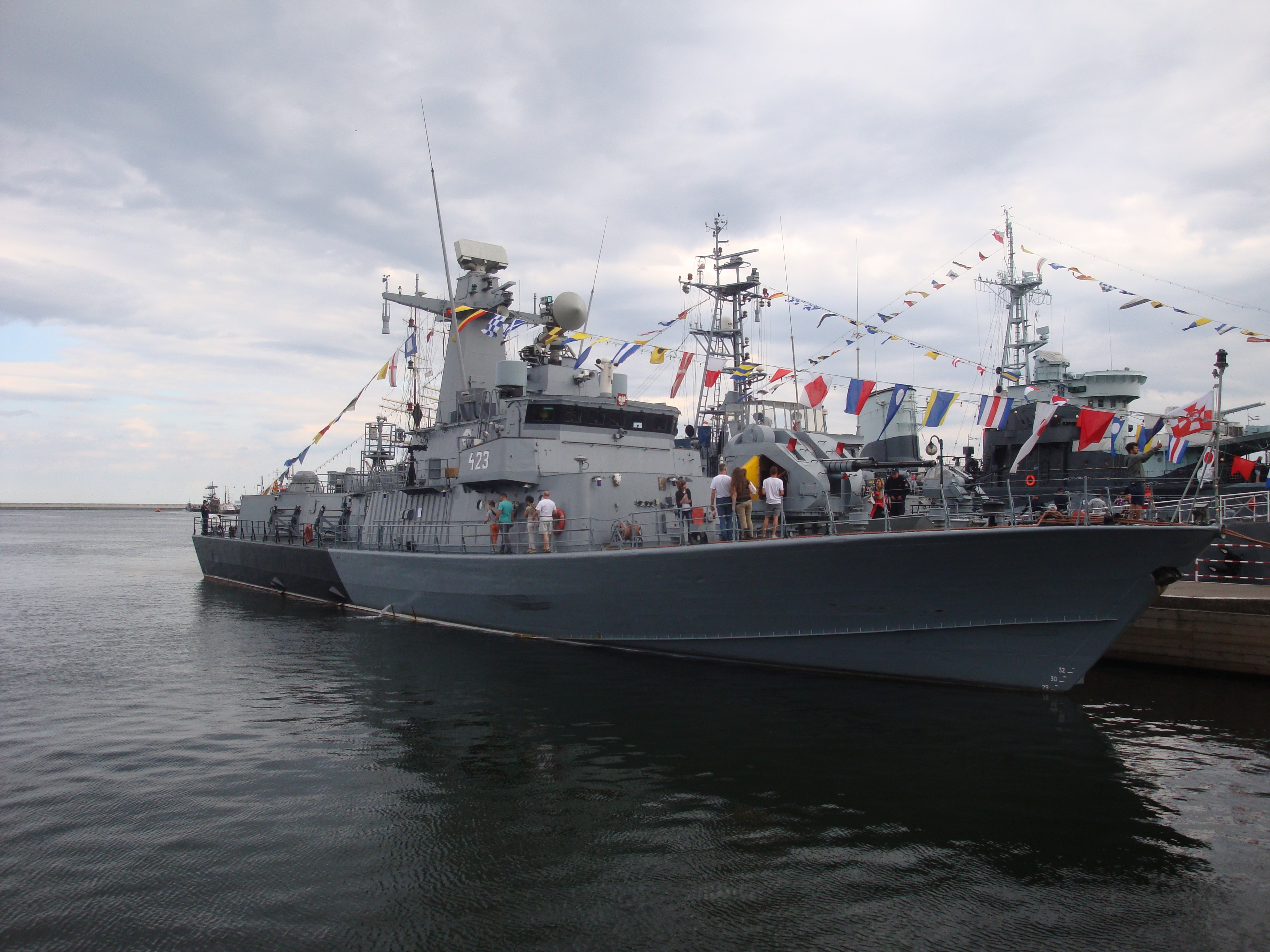 ORP Grom – an Orkan-class fast attack craft of Polish Navy.